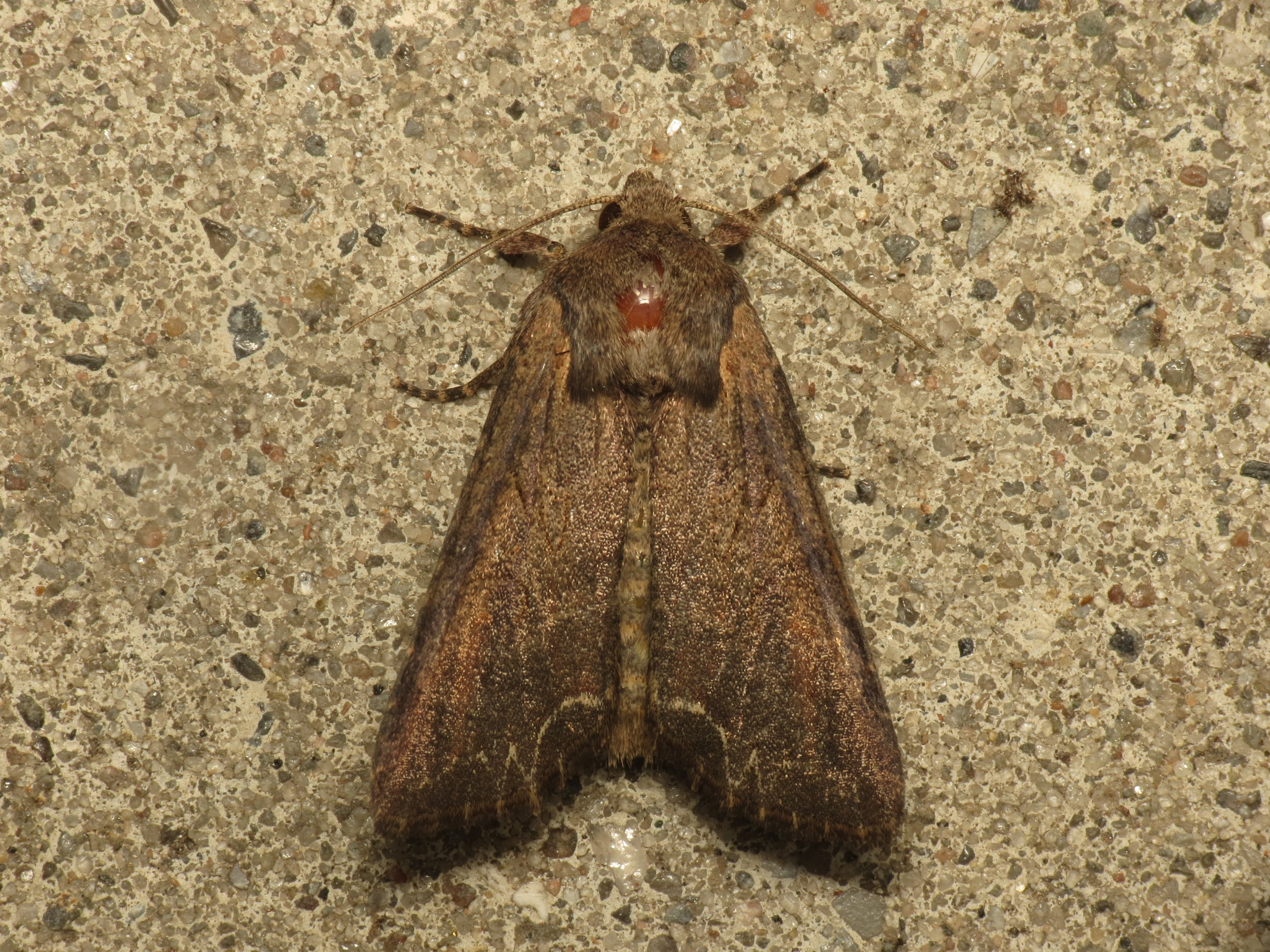 Lacanobia suasa ([Denis & Schiffermüller], 1775), Dog's Tooth, to Robinson trap, Søborg, Denmark, 5/6 August 2013